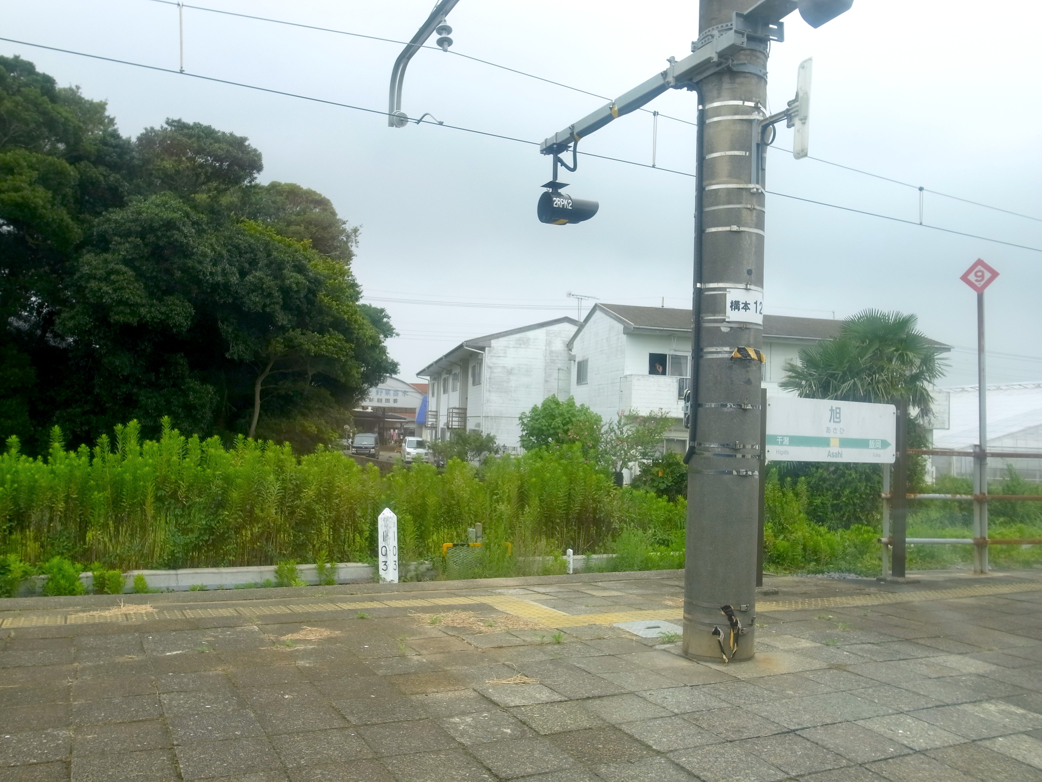 Asahi Station (旭駅 Asahi-eki) is a railway station in Asahi, Chiba, Japan, operated by East Japan Railway Company (JR East).